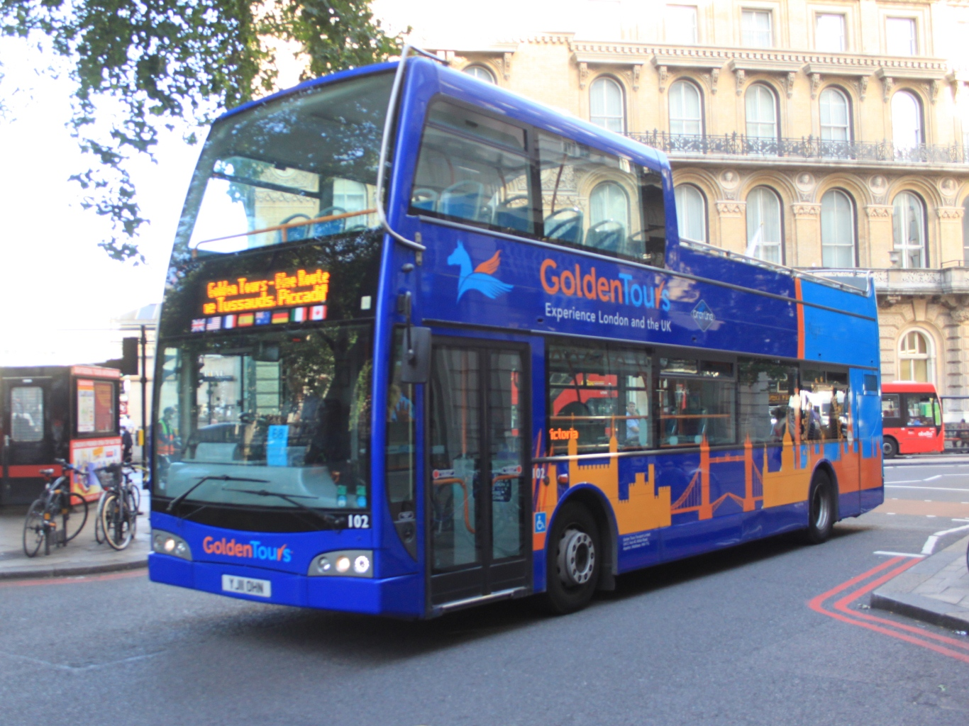 Golden Tours bus number 102 (an Optare Visionaire registered YJ11OHN) passes through Grovesnor Square, London.